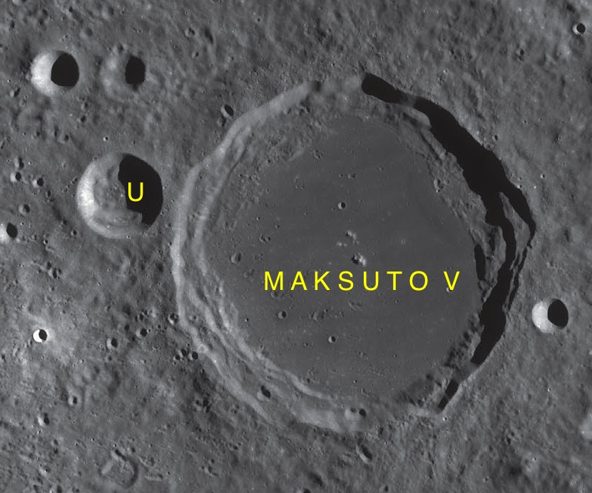 Part of the chart LAC-120 used for the presentation